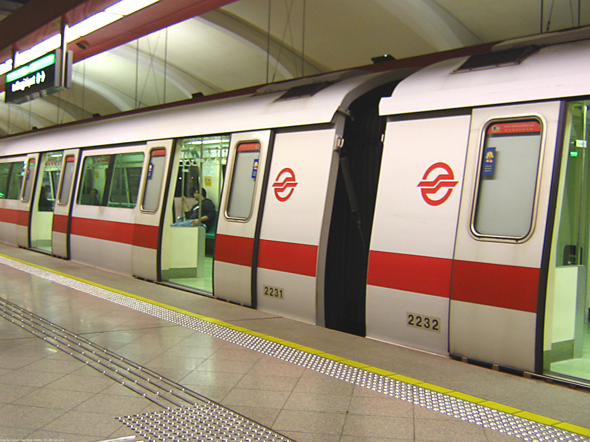 A Pre-refurbished Siemens C651 train at the middle platform of Tanah Merah Station (EW4).